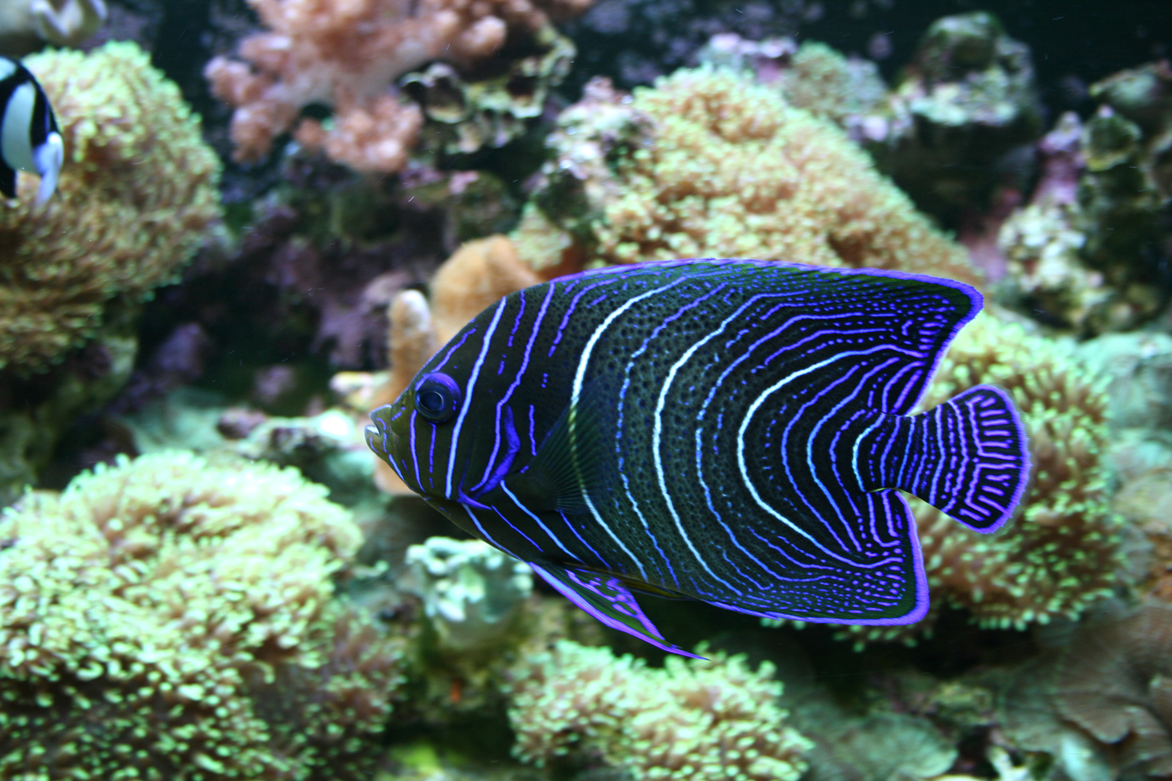 Fish Pomacanthus semicirculatus in Prague sea aquarium, Czech Republic